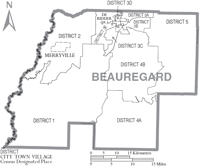 Map of Beauregard Parish, Louisiana, United States with municipal and district boundaries